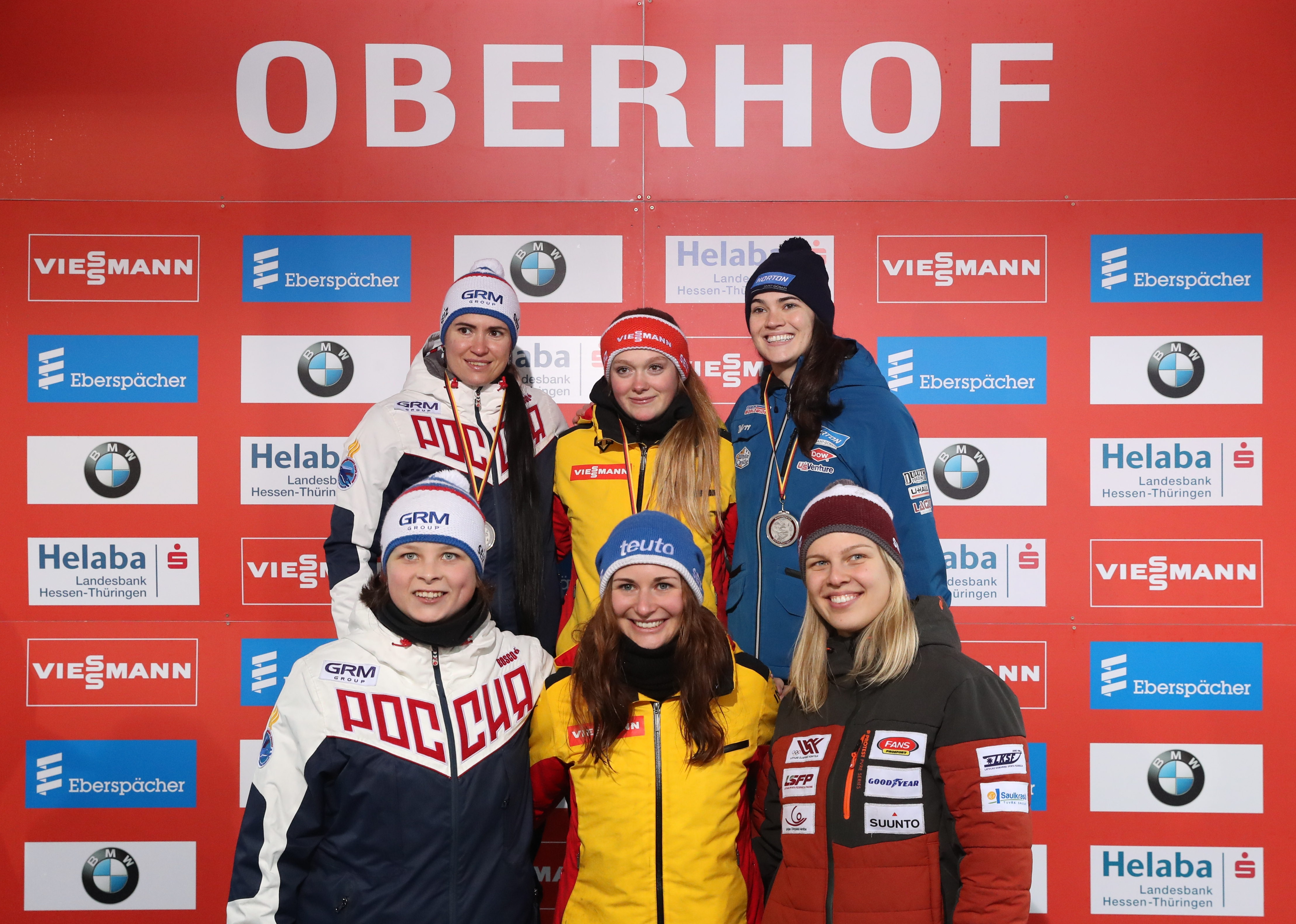 Victory Ceremonies (Women's and Team Relay) at Saturday at the 2019/20 Oberhof Luge World Cup